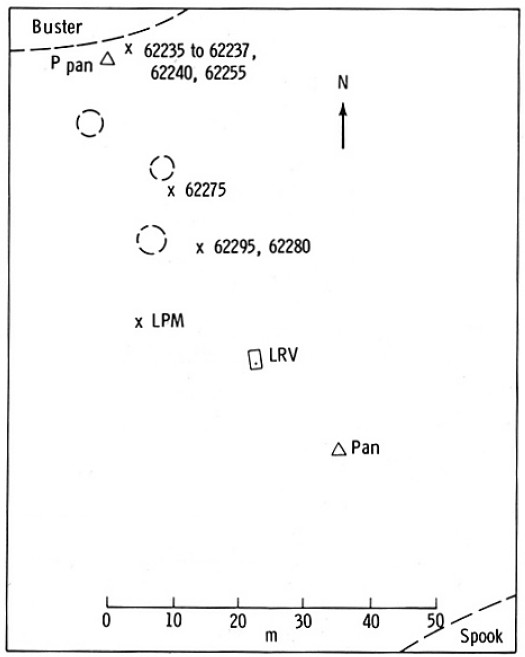 Figure 6-29 (edited slightly). Planimetric map of Apollo 16 Geology Station 2, north of Spook crater. X indicates sample locations, 5-digit numbers are LRL sample numbers, rectangle is lunar rover (dot indicates TV camera), black spots are large rocks, dashed lines are crater rims or other topographic features, and triangles are panorama stations.